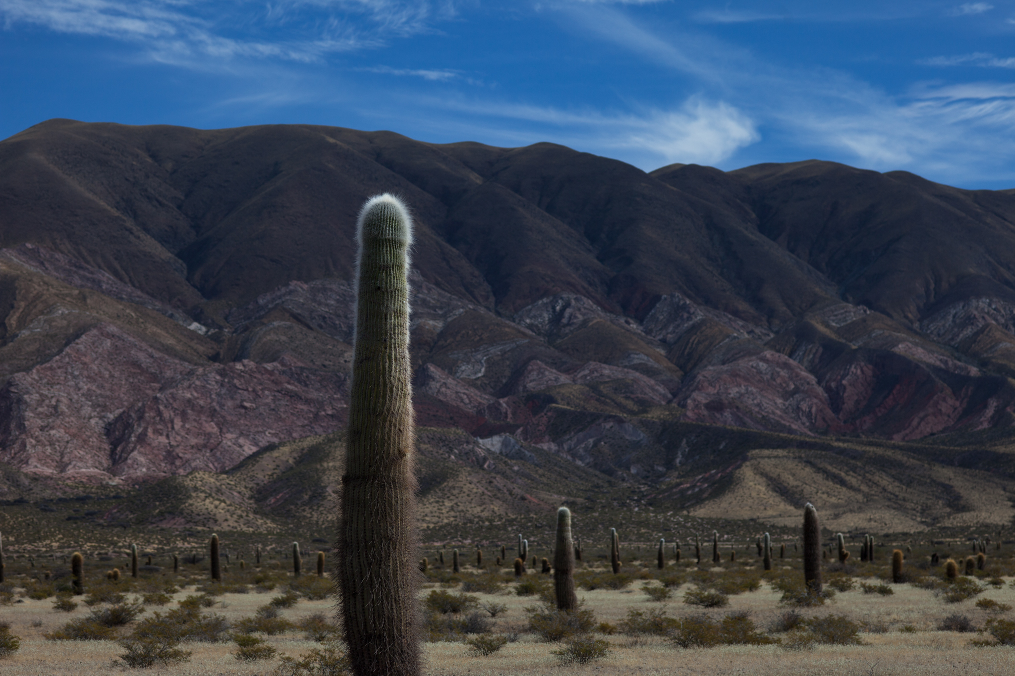 Los Cardones National Park, Salta (Argentina).